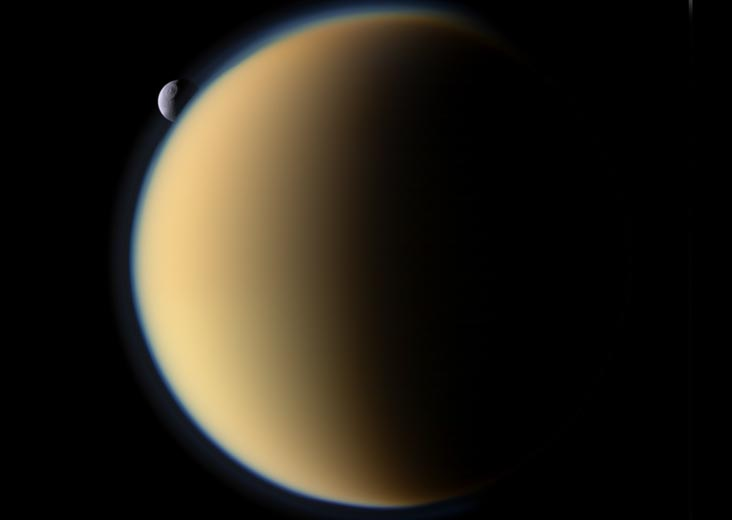 Saturn's moon Tethys with its prominent Odysseus Crater silently slips behind Saturn's largest moon Titan. Tethys is not actually enshrouded in Titan's atmosphere. Tethys (1,062 km, or 660 miles across) is more than twice as far from Cassini than Titan (5,150 km, or 3,200 miles across) in this sequence. Tethys is 2.2 million km (1.4 million miles) from Cassini. Titan is about 1 million km (621,000 miles) away.